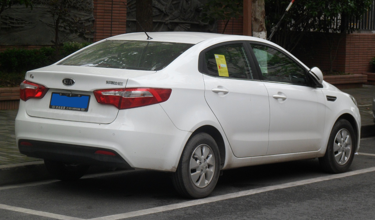 Kia K2 QB sedan photographed in Shanghai, China.